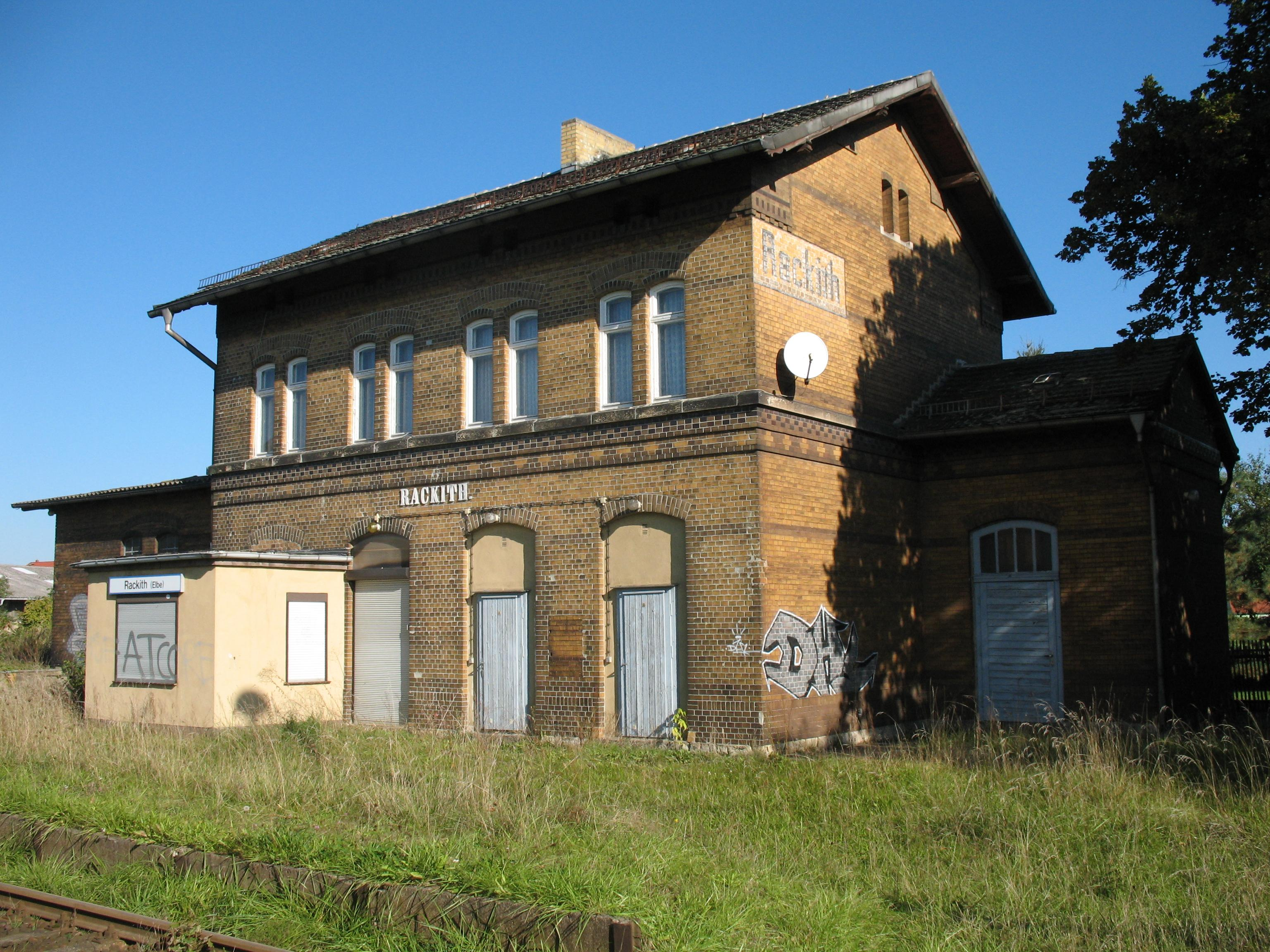 Train station in Kemberg-Rackith in Saxony-Anhalt, Germany